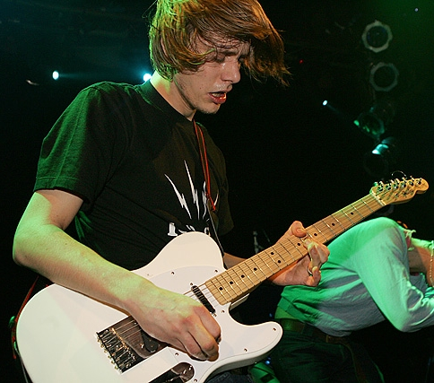 Picture of the former guitarist of the Babyshambles, Patrick Walden.